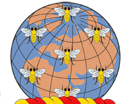 The Coat of arms of Manchester City Council, the local government authority for the City of Manchester, in Greater Manchester, England. The blazon is:ARMS: Gules three Bendlets enhanced Or a Chief Argent thereon on Waves of the Sea a Ship under sail proper.CREST: On a Wreath of the Colours a Terrestrial Globe semee of Bees volant all proper.SUPPORTERS: On the dexter side a Heraldic Antelope Argent attired collared and chain reflexed over the back Or and on the sinister side a Lion guardant Or murally crowned Gules each charged on the shoulder with a Rose of the last.